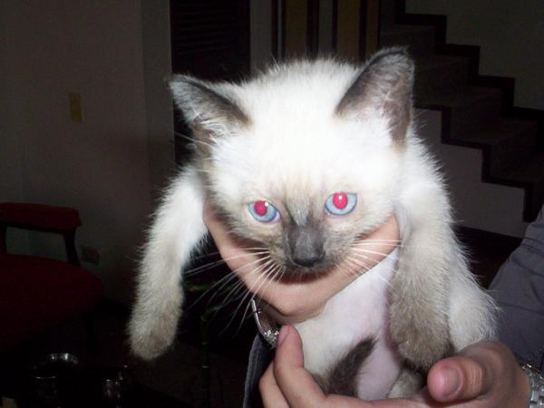 Siamese kitten